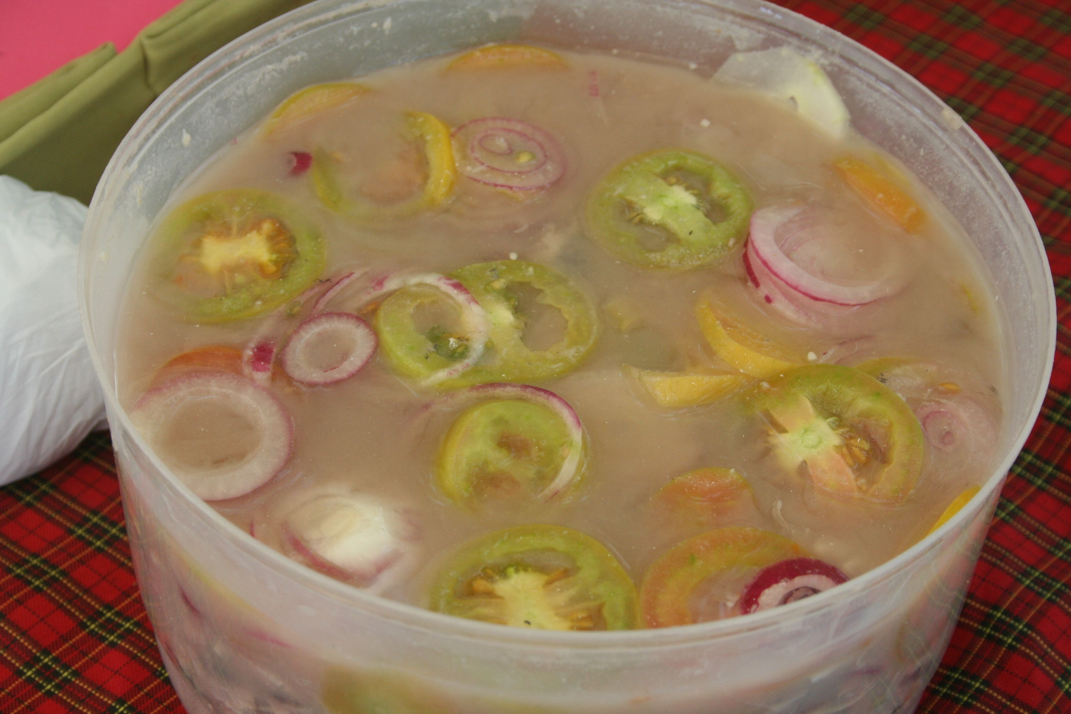 Pulutan nga ginamos while waiting the Basketball Game Tournament with all employee of Gigaworkz Technologies